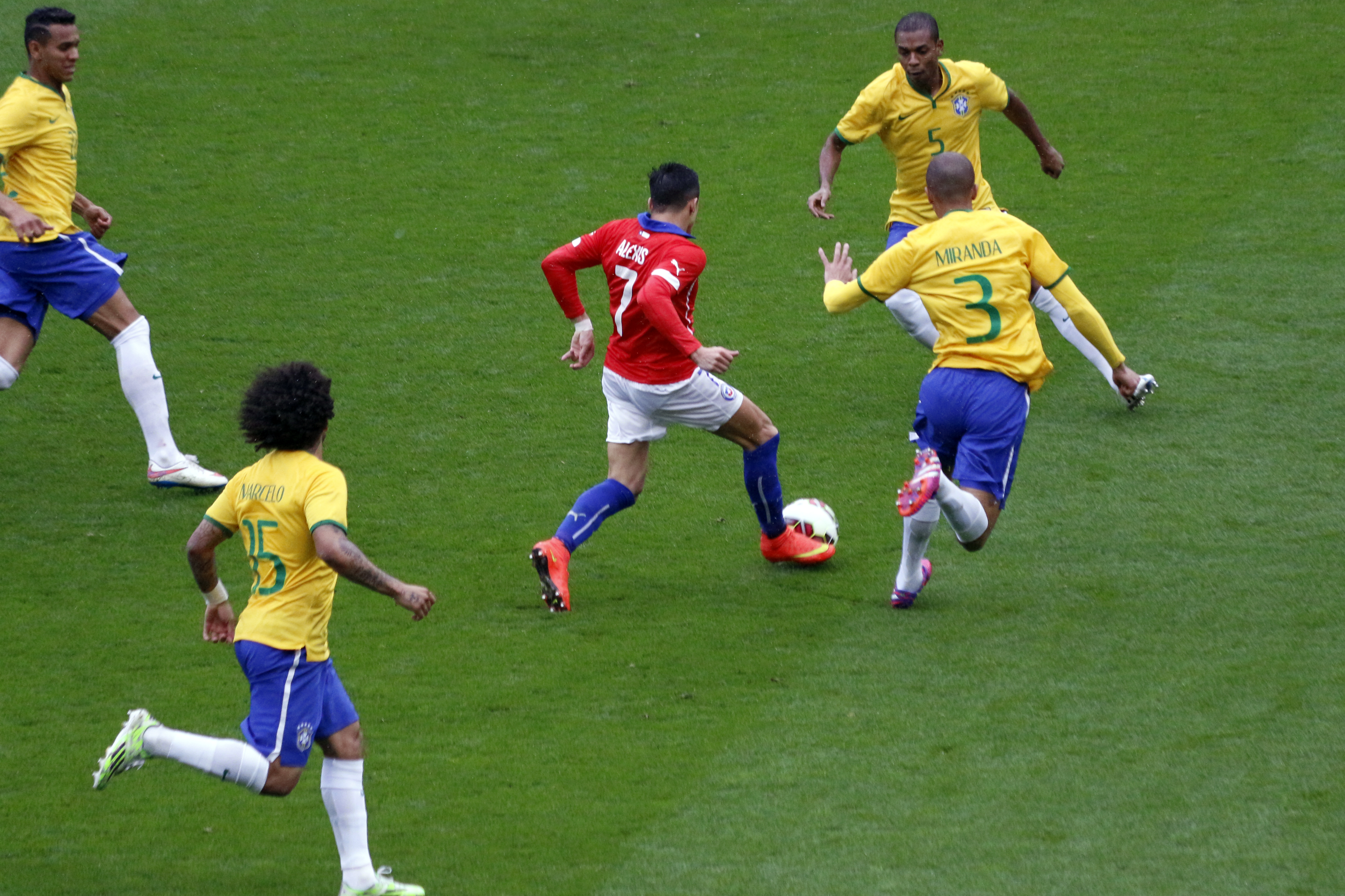 Fernandinho Marcelo Miranda Souza Alexis Sánchez Brazil vs Chile, International Friendly, 29th March, 2015, Emirates Stadium, London